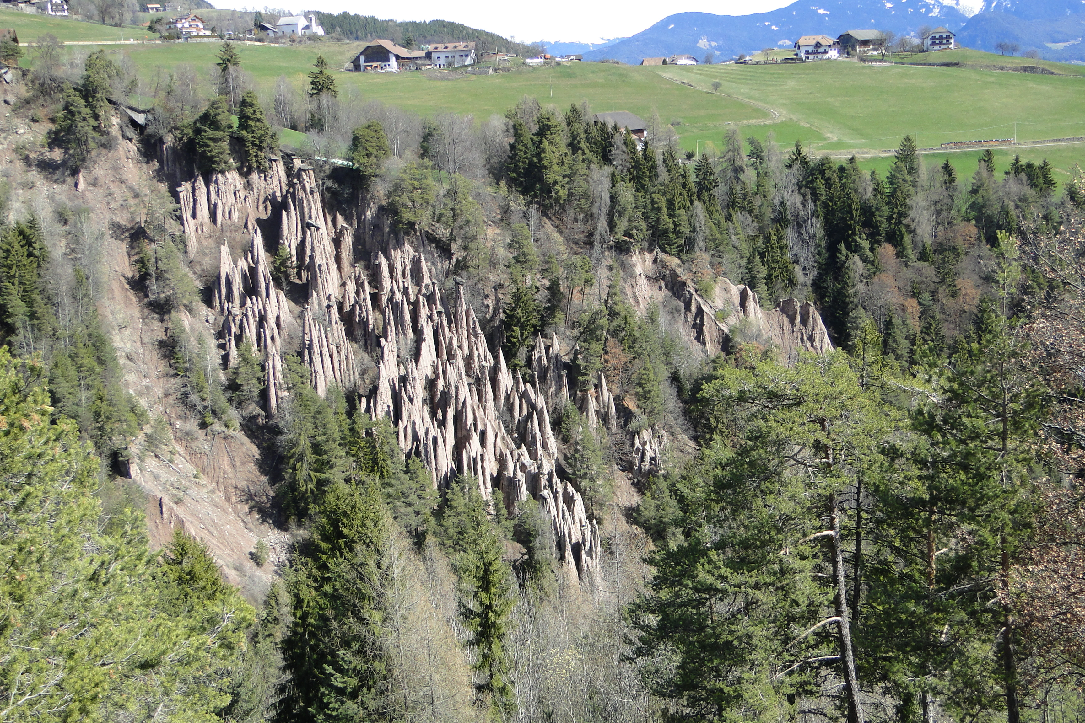 Earth pyramids of Ritten - Italy